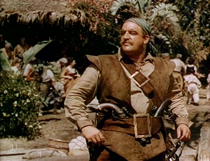 Laird Cregar in a screenshot from the trailer for the film The Black Swan.